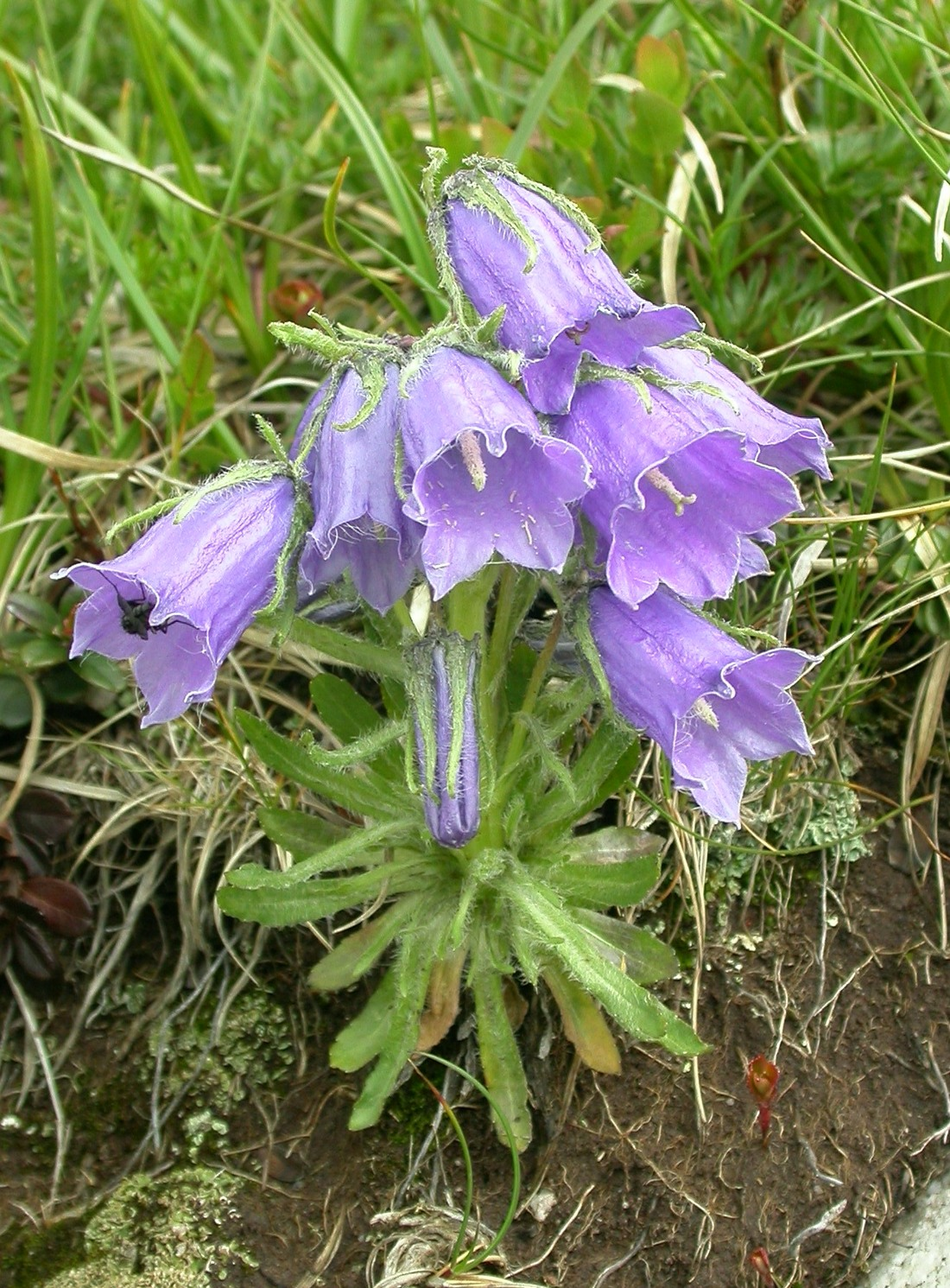 Campanula alpina in Belianske Tatry mountains, Slovakia